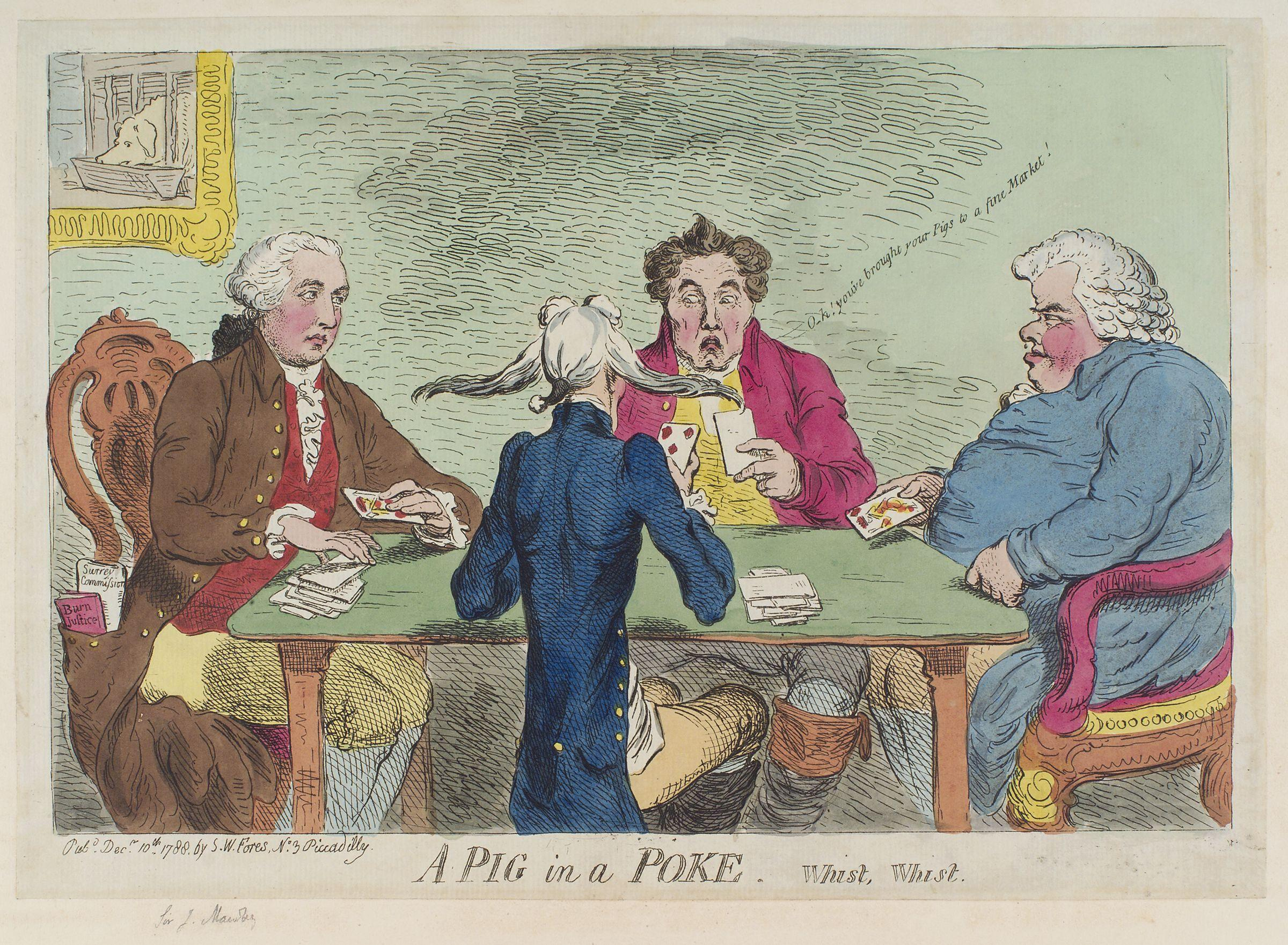 A pig in a poke. Whist, whist' (Sir Joseph Mawbey, 1st Bt), by James Gillray, publisher Samuel William Fores (floruit 1841), published 1788. According to the NPG's website the work was published prior to 1859, and so the author is reasonably presumed dead by 1939.